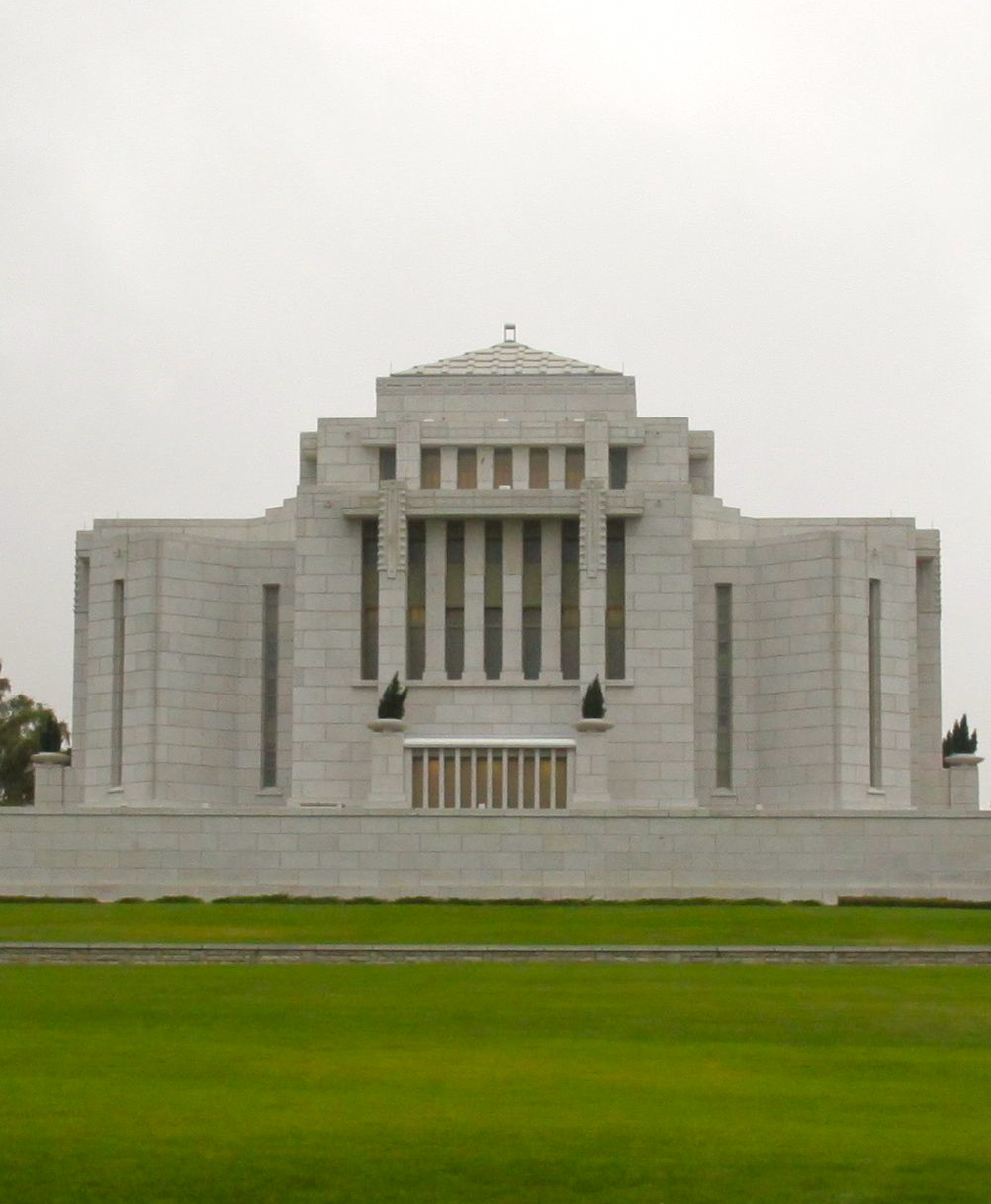 Cardston Alberta Temple